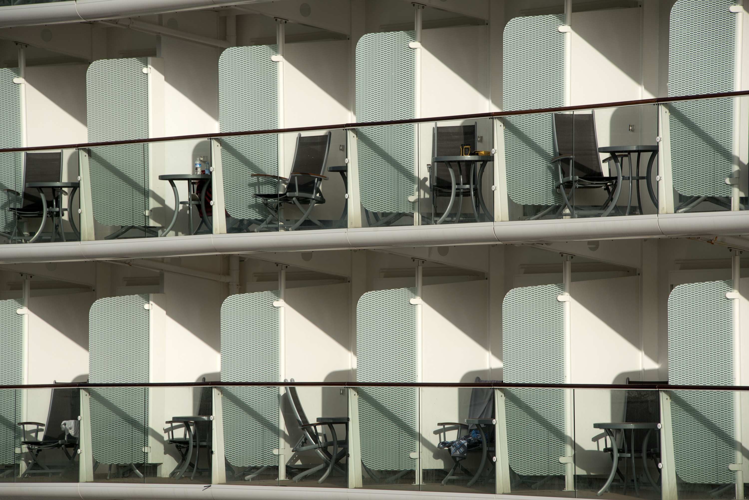 Celebration X Reflection cruise ship Balcony, docked in Sint Maarten, Caribbean.